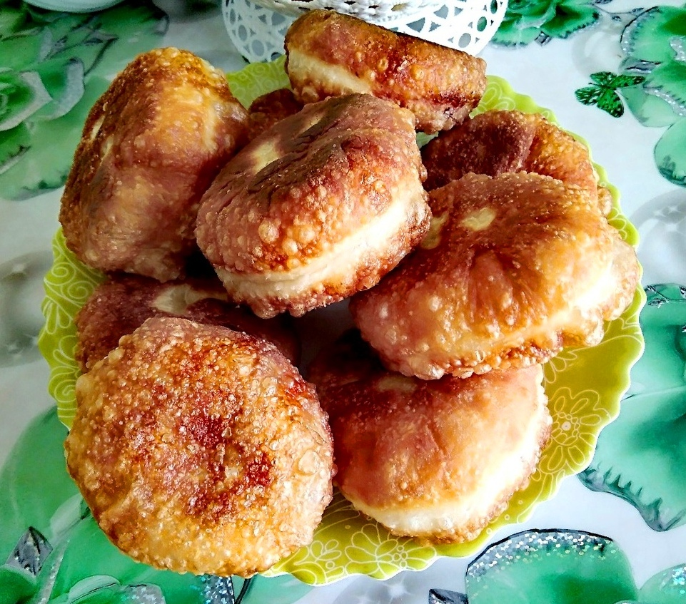 Peremech from Siberia